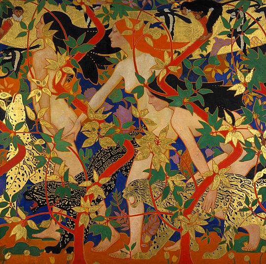 It's a painting by Robert Burns (not the poet) of Diana, goddess of hunting and the skies with 2 nymphs, which is in National Gallery of Scotland.